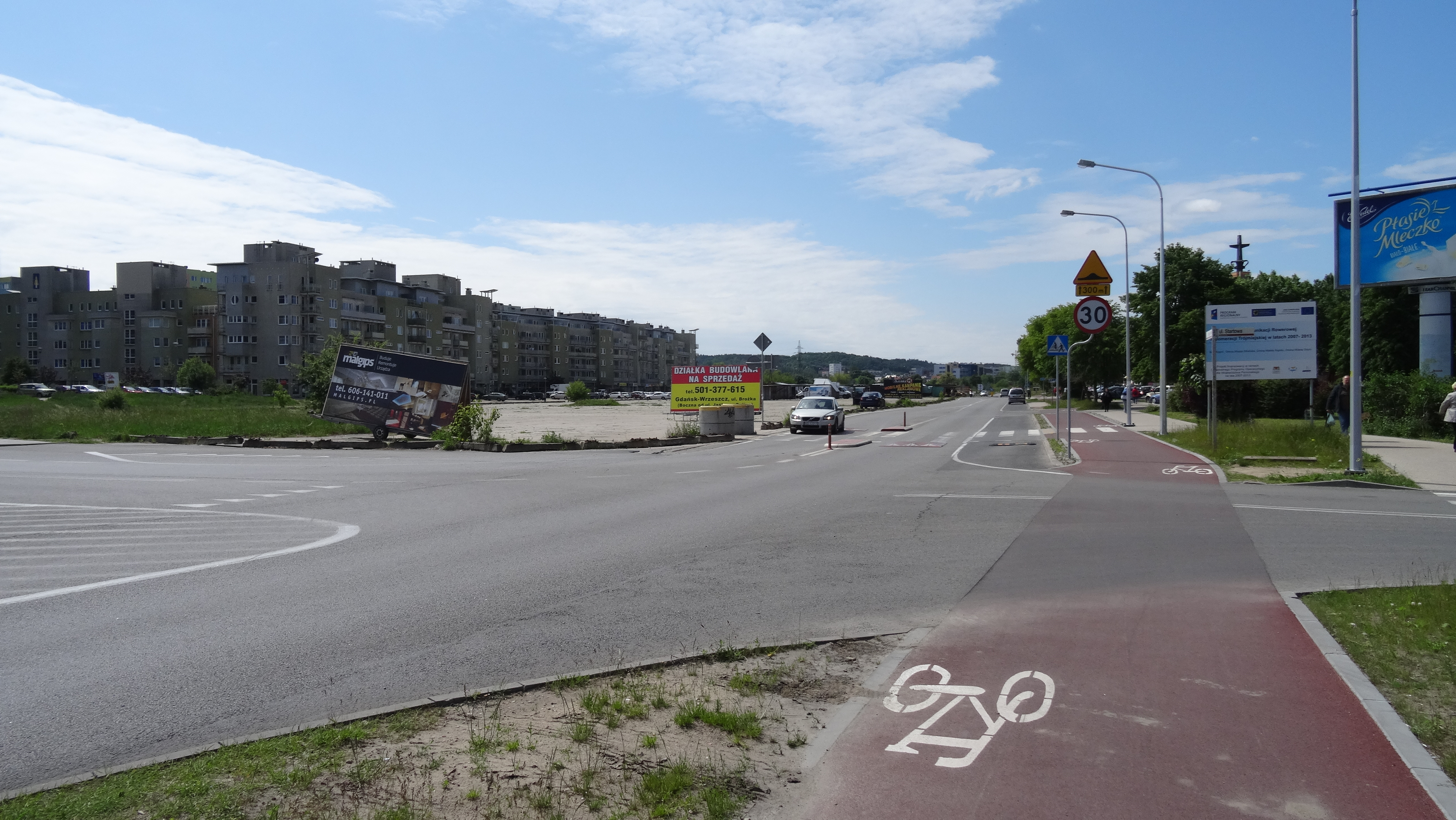 Gdansk Poland Jana Pawla II bicycle path